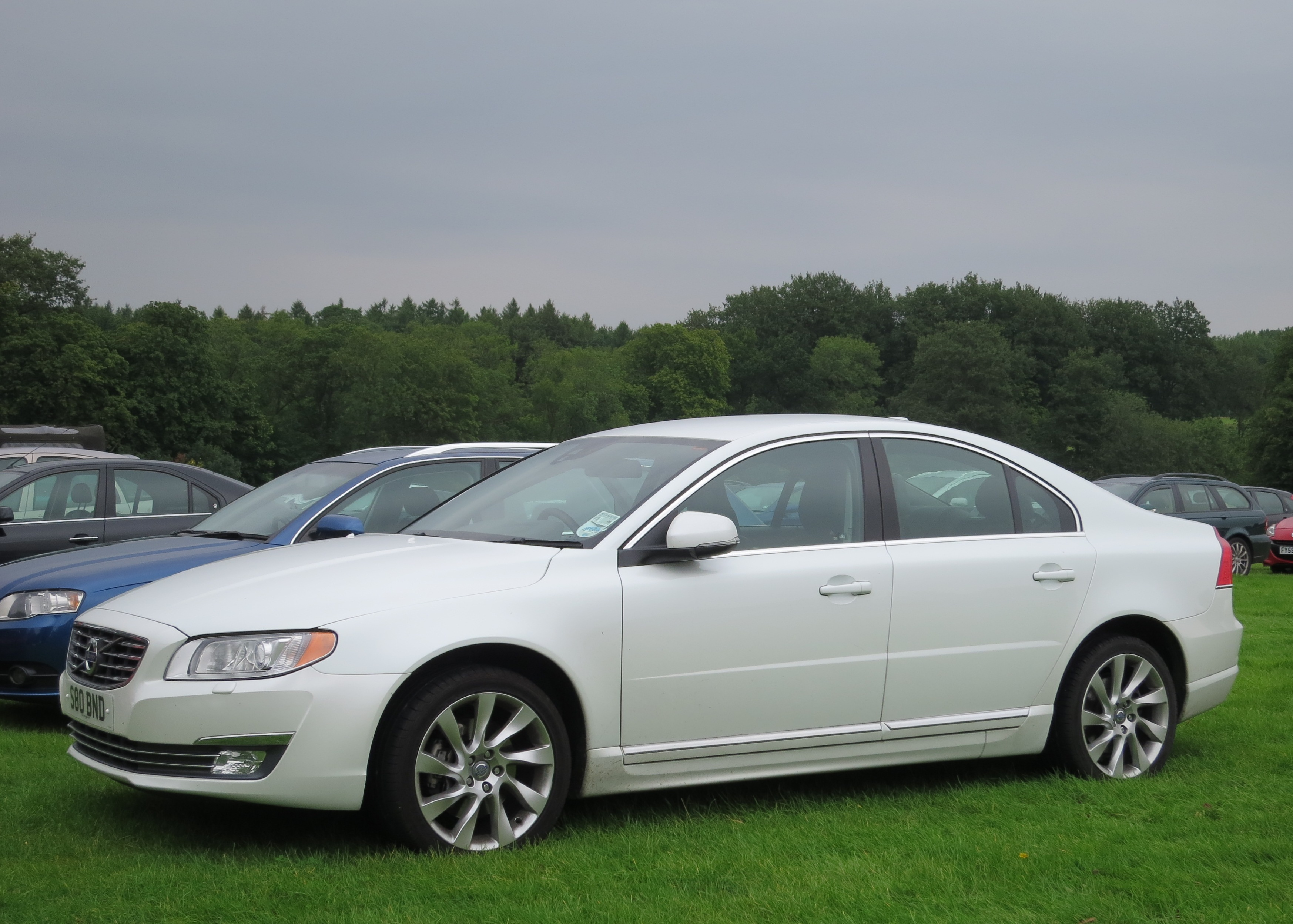 Volvo S80 (2013)